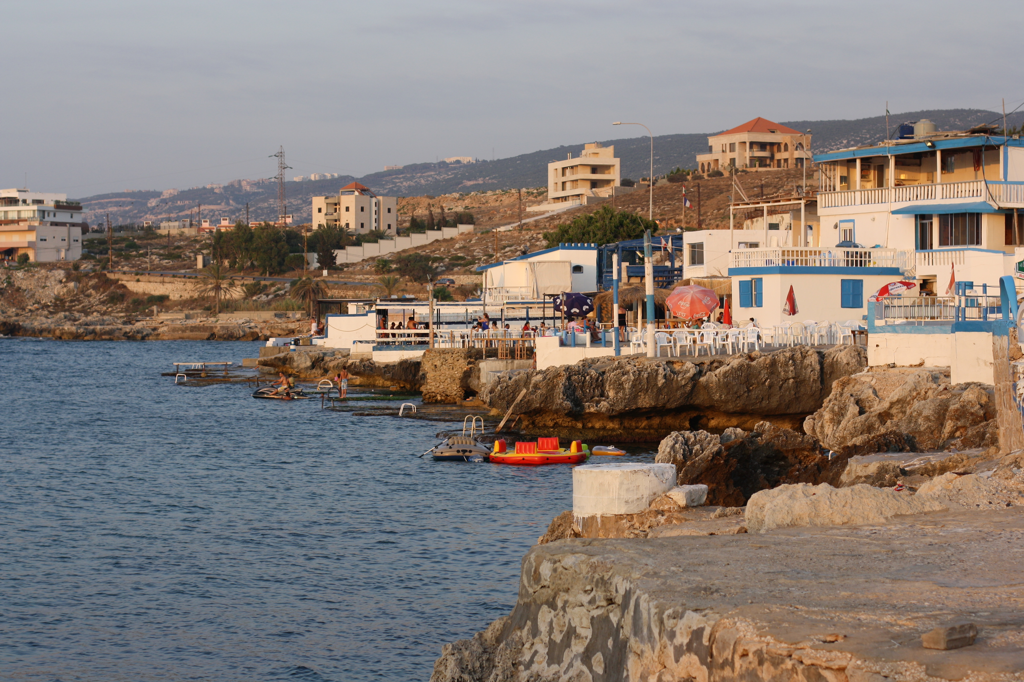 La partie touristique d'Enfeh près de l'ancienne citadelle détruite